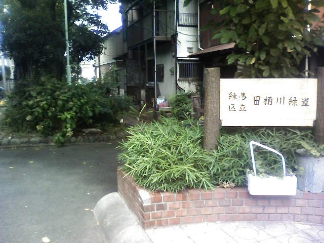 Tagara-gawa river green road, Nerima, Tokyo, Japan